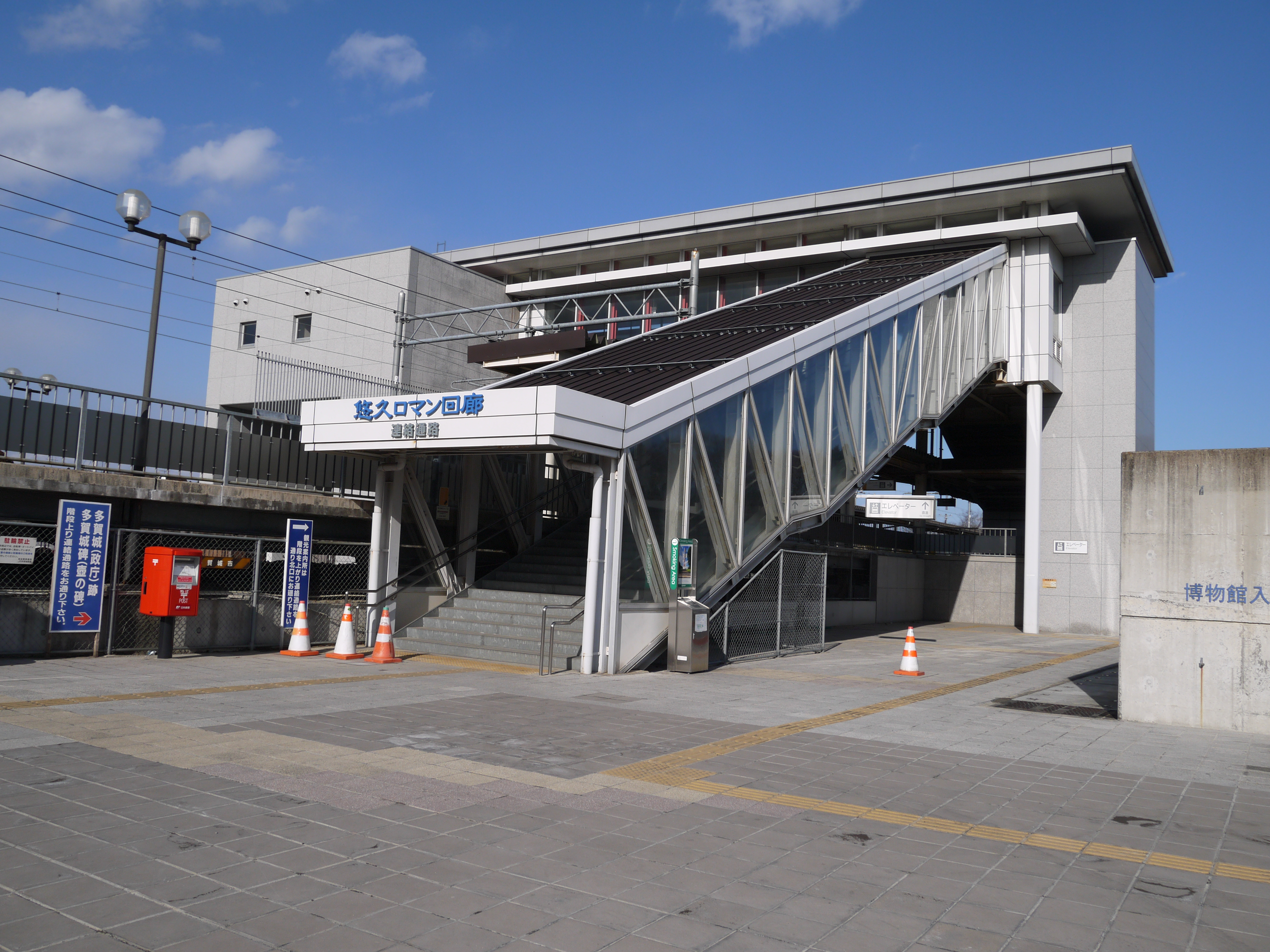 Kokufu-Tagajo Station south entrance